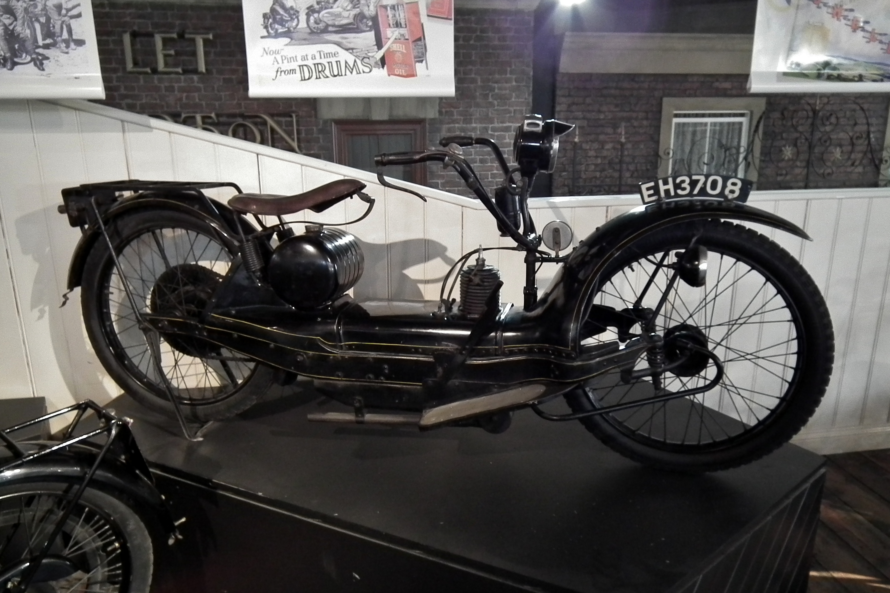 1921 Ner-A-Car 2¾hp motorcycle. Taken at the National Motor Museum in Beaulieu, Hampshire, England.